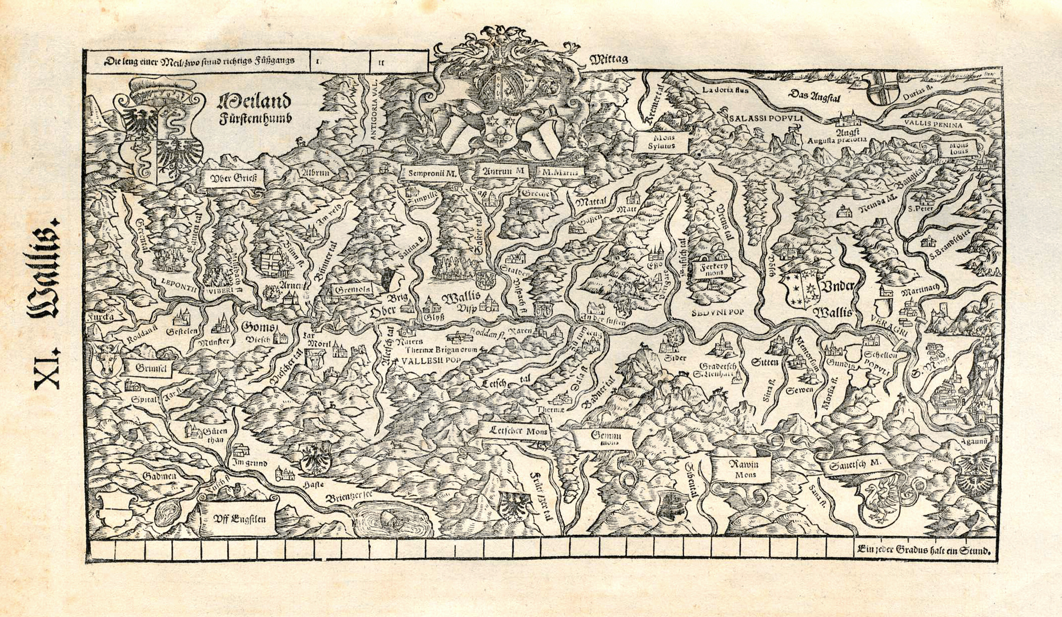 Map of the Valais of 1548. The Riedmatten coat of arms of the prince-bishop is shown at the top; the city of Sion is shown with an early version of the Valais coat of arms (with ten stars). Coats of arms of other communes of the Valais are shown in smaller size, with some shields left empty. Coats of arms of neigbouring polities: Duchy of Milan (top left), Savoy (top right), Uri, Hasle, Frutigen, Simmental, Saanen, Aigle(?). The Matterhorn is shown as Mons Sylvius, Great St. Bernhard as Mons Iovis. Literature: Anton Gattlen, L'estampe topographique du valais 1548-1850 (1987), p. 12.